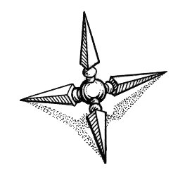 line art drawing of caltrope.